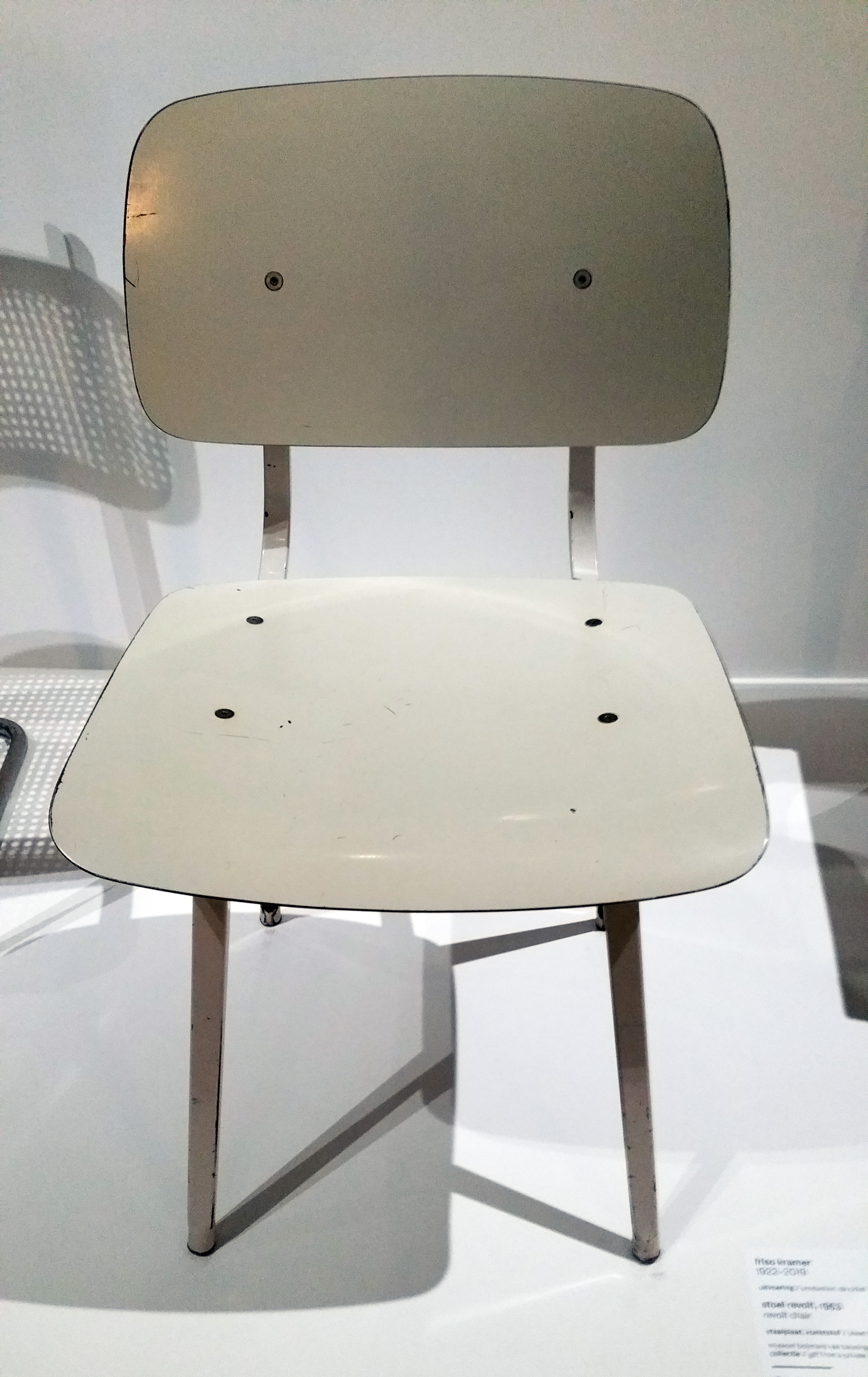 Friso Kramer, revolt chair 1953, procuction De cirkel, sheet steel and plastic, location Museum Boijmans Van Beuningen, gift from a private collection 2015